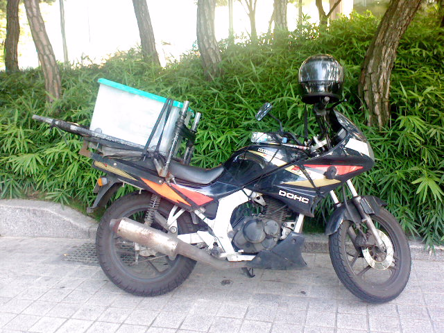 Hyosung Exiv(Motorcycle Delivery Service)